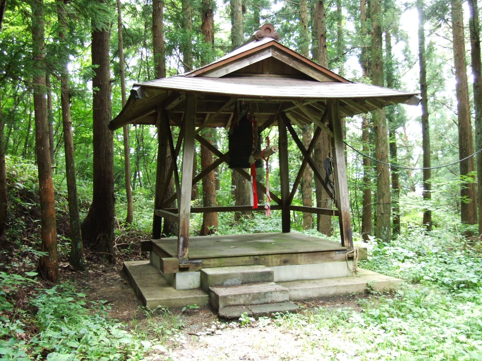 Bellhouse of the Enryū Shrine. Sendai, Miyagi prefecture, Japan.